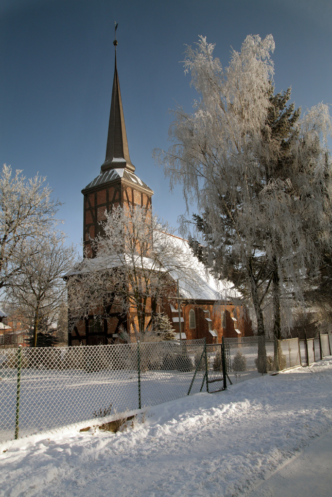 church